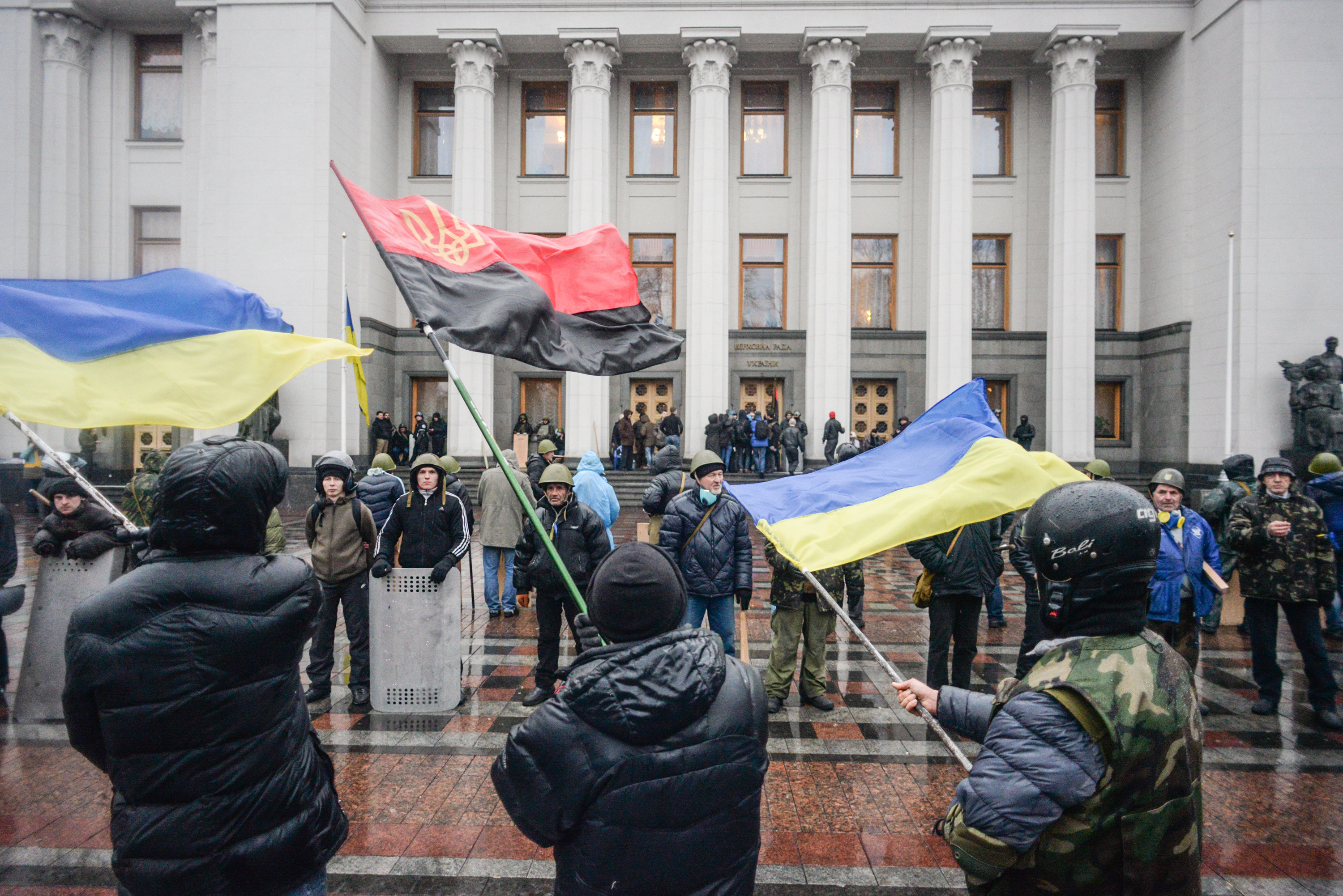 Samooborona (Self Defence) guard and activists at the entrance to Verkhovna Rada. Euromaidan, Kyiv, Ukraine. Events of February 22, 2014.